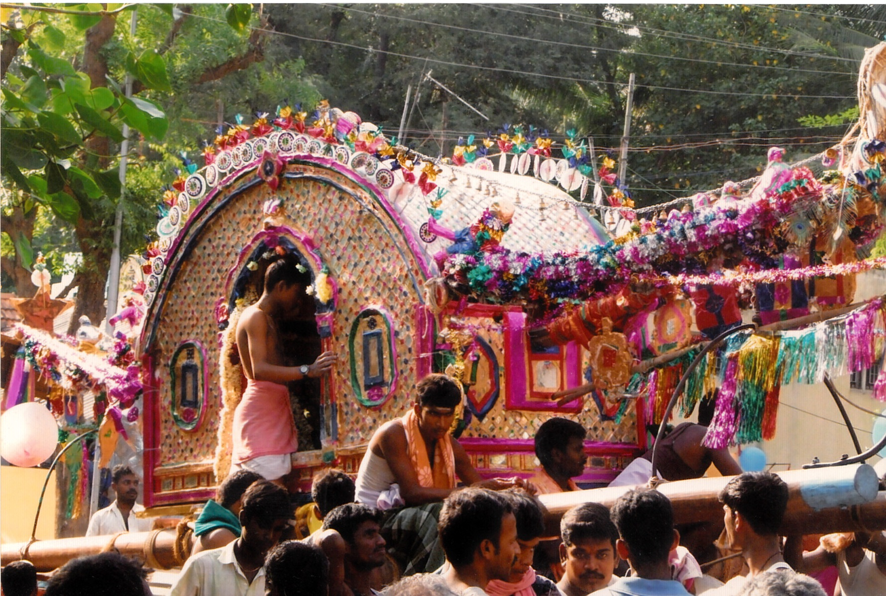 திருப்பழனம் பல்லக்கு, திருவையாறு சப்தஸ்தான விழா, ஏப்ரல் 2008